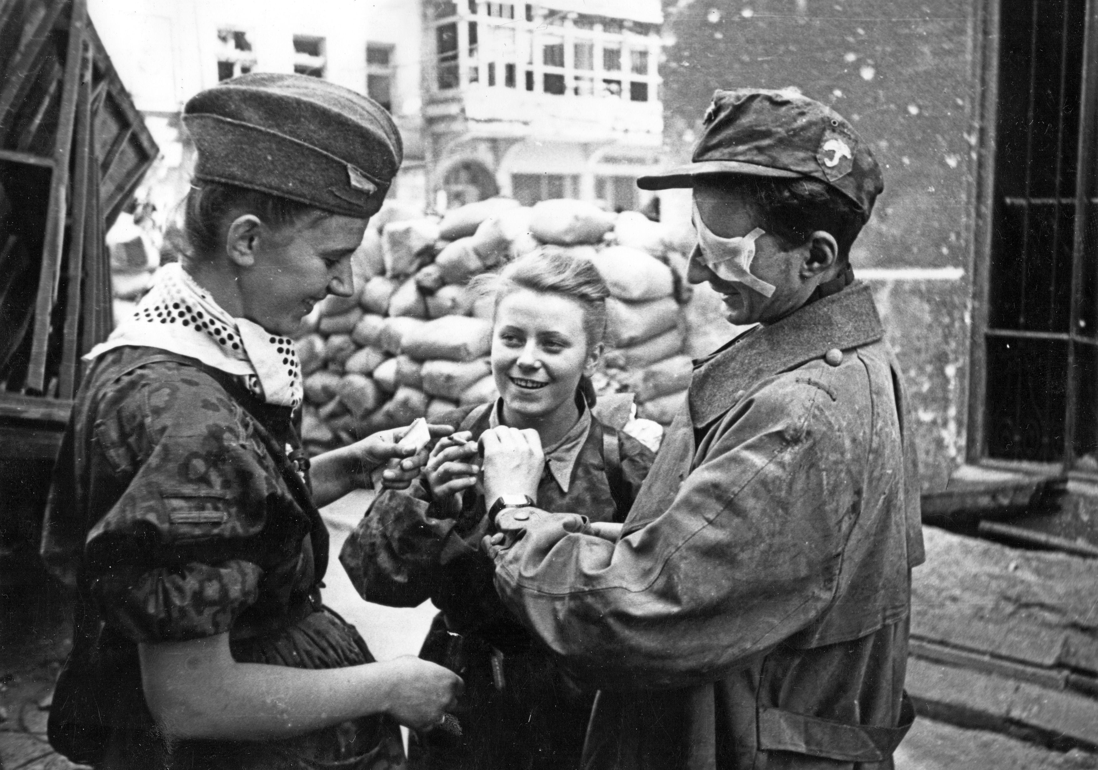 Warsaw Uprising: Two medics and a soldier (right) from "Parasol" battalion after coming out of sewers at Warecka Street near Nowy Świat (North Śródmieście district). In the center Maria Stypułkowska-Chojecka "Kama". On the right Krzysztof Palester "Krzych".